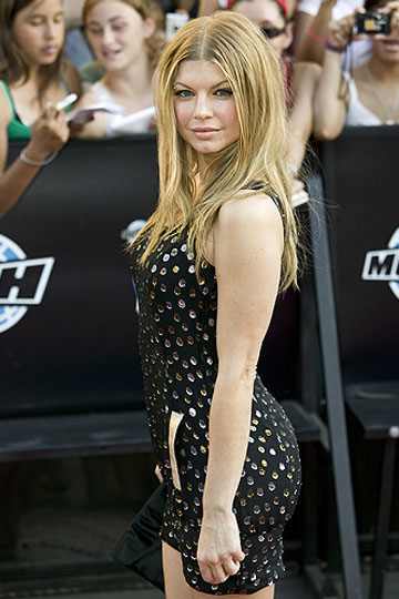 Fergie at the MMVAs.